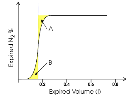 dtf5b5